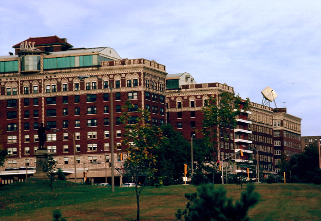 Chase-Park Plaza Hotel - (1981)